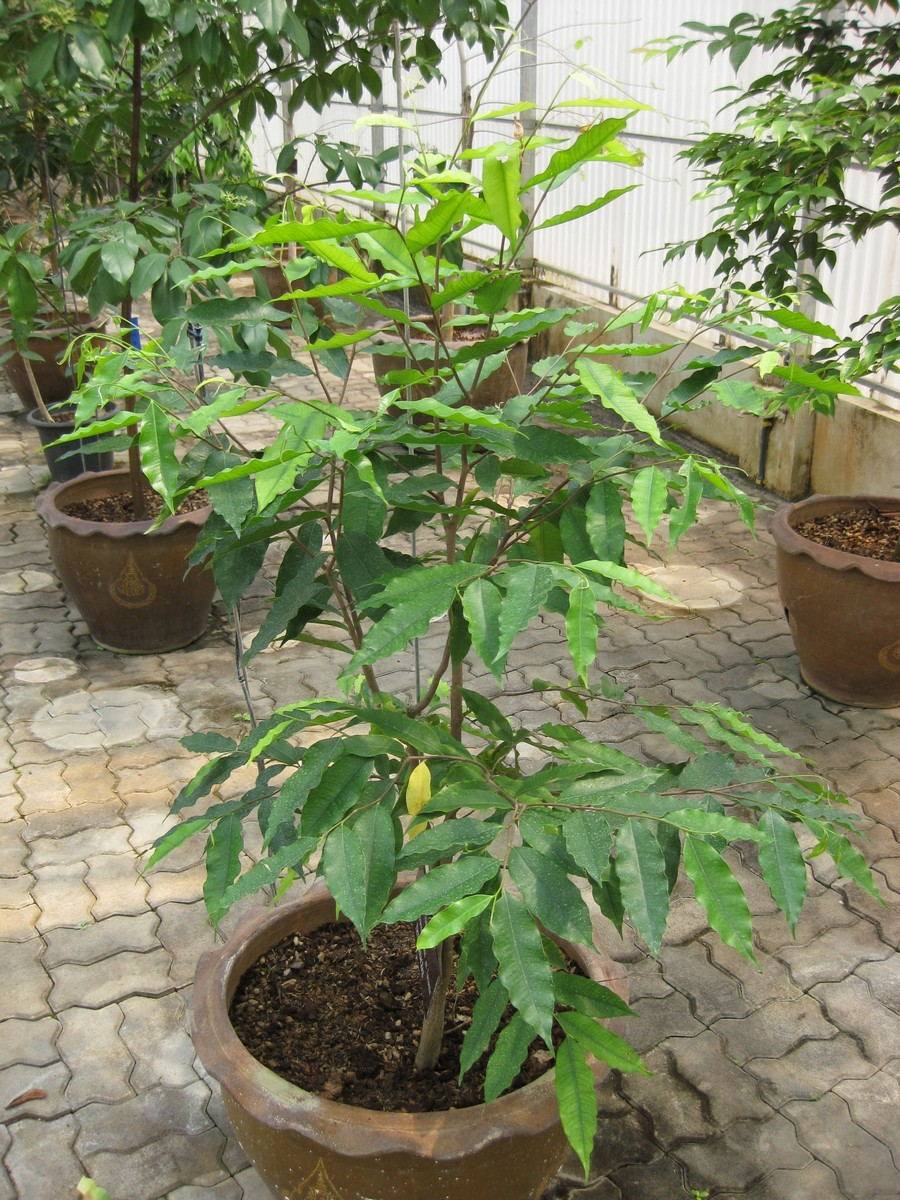 Aquilaria crassna Pierre ex Lecomte. Photographed at the Queen Sirikit Botanic Garden (Chiang Mai Province, Thailand) in March